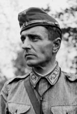 Valter Nordgren, Knight of the Mannerheim Cross #60